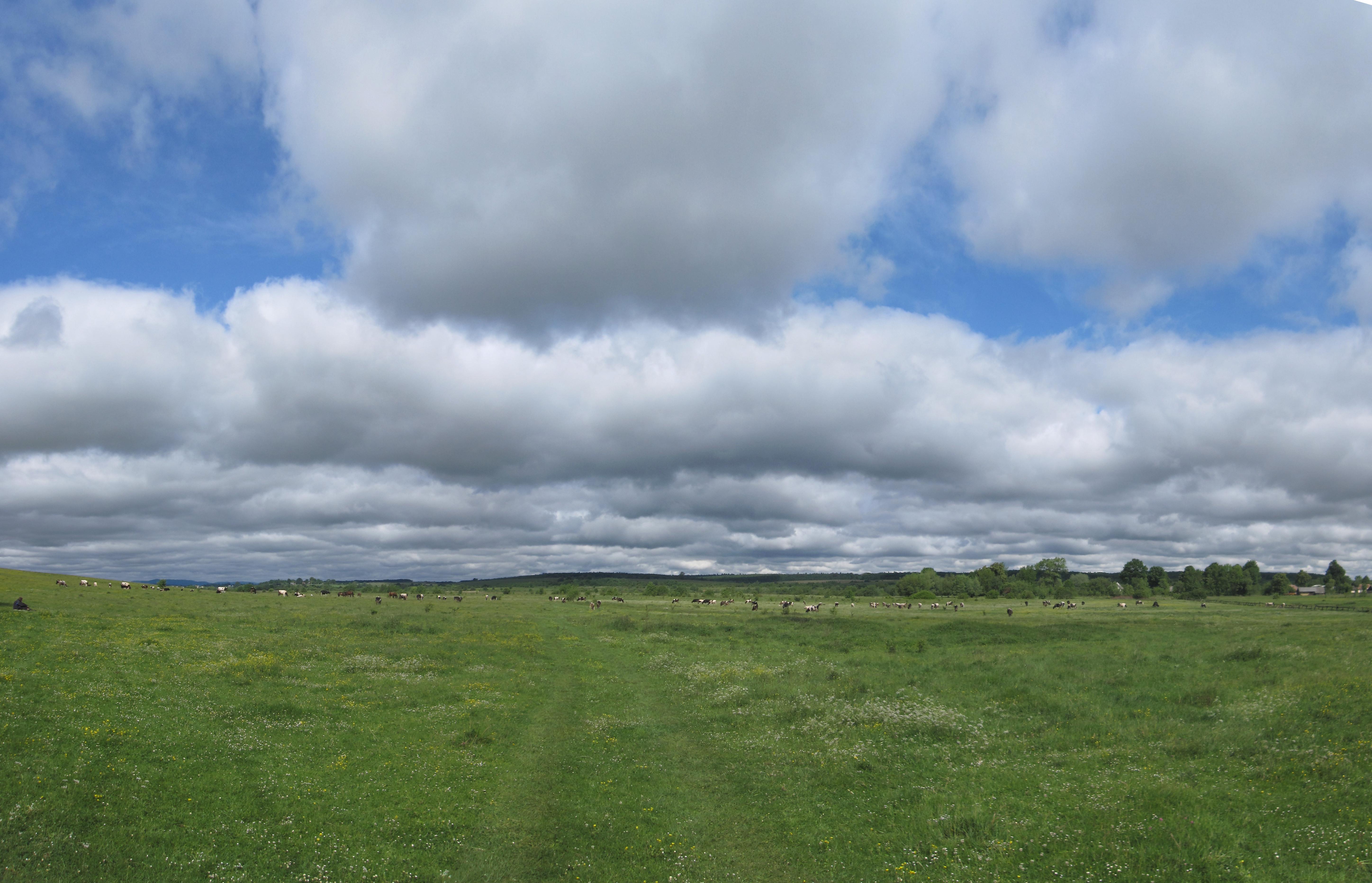 Landscape around Sielec, Drohobych Raion in Galicia, western Ukraine.